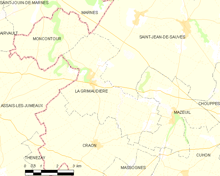 Map of French municipality La Grimaudière